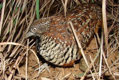 Dr.KV Gururaja,EWRG,CES, IISc, 2006. Barred button quail, female, photographed from Nandihills on 18July2006